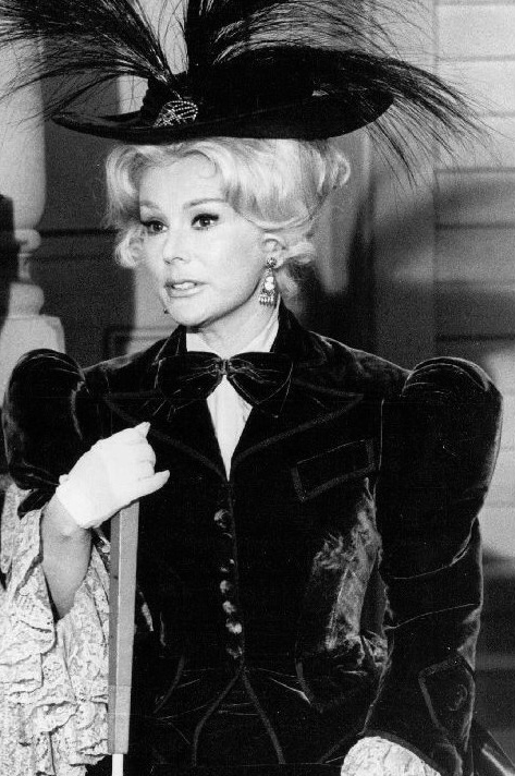 Photo of Eddie Albert and Eva Gabor from the television comedy Green Acres. This episode is "The Old Trunk" and it originally aired March 19, 1969.